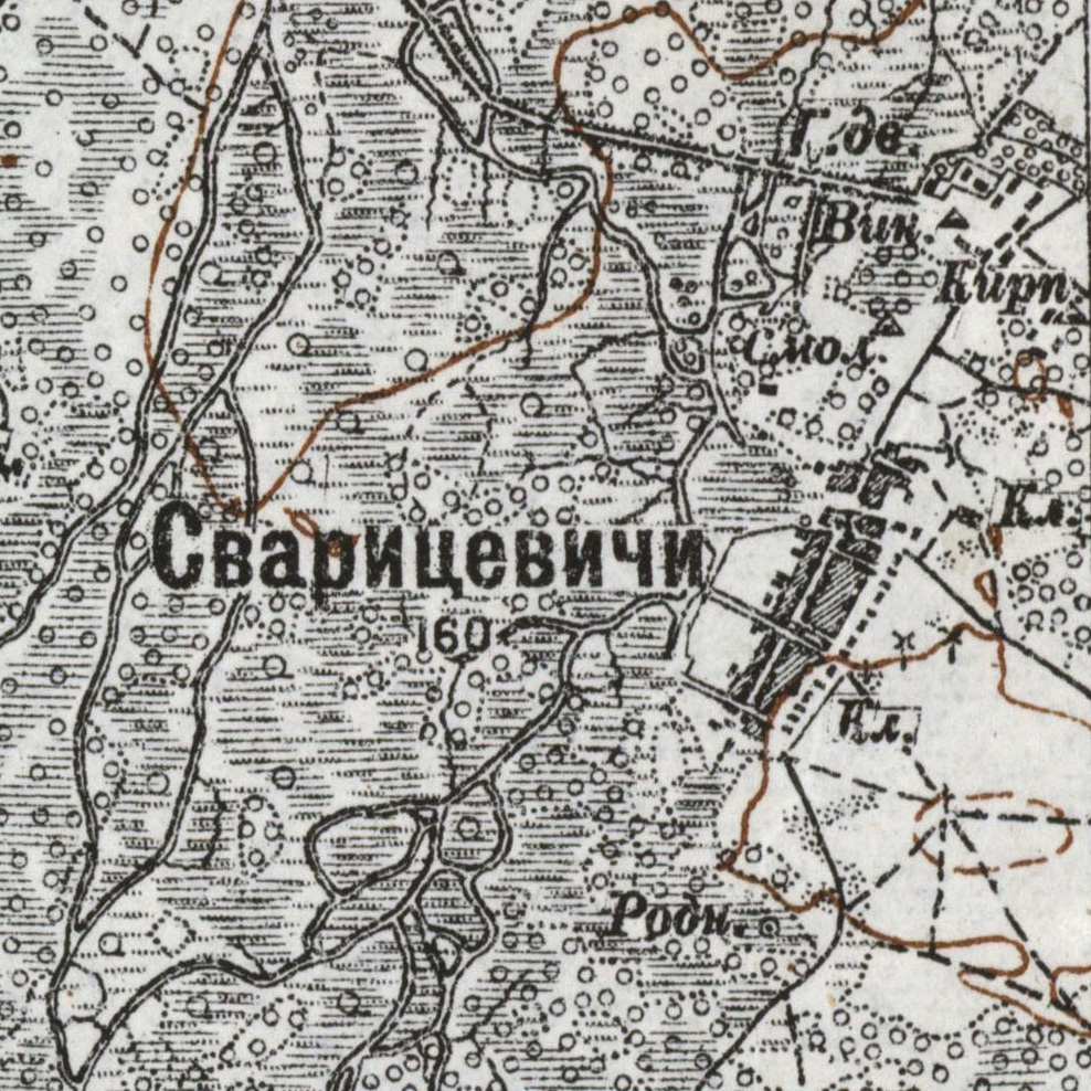 Svarytsevychi on the map "Новая Топографическая Карта Западной России", XXV 20, 1915.